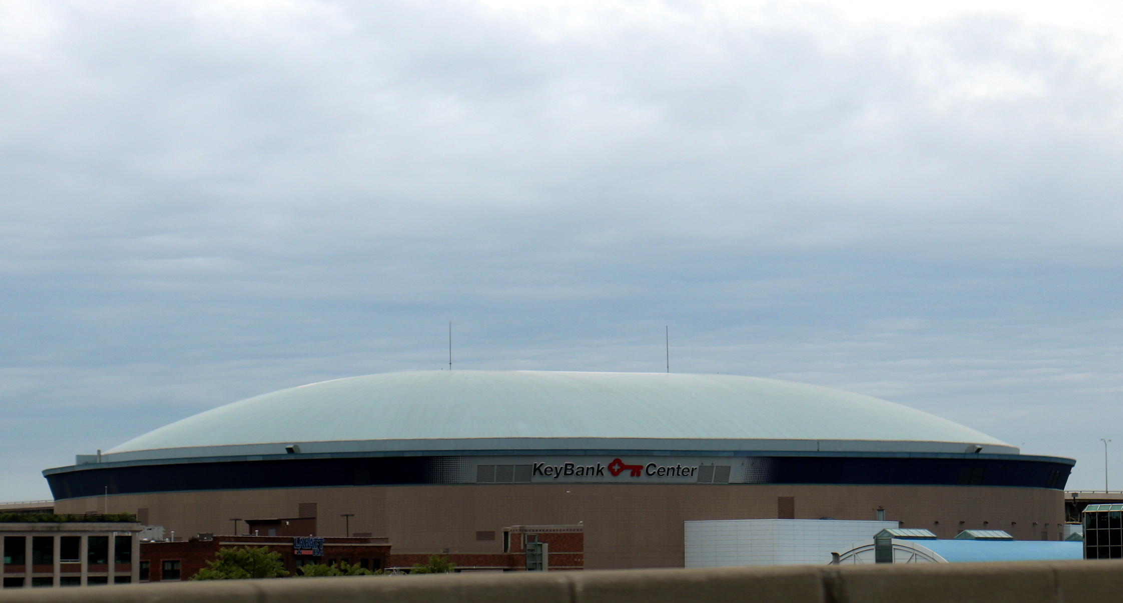 KeyBank Center from Interstate 190